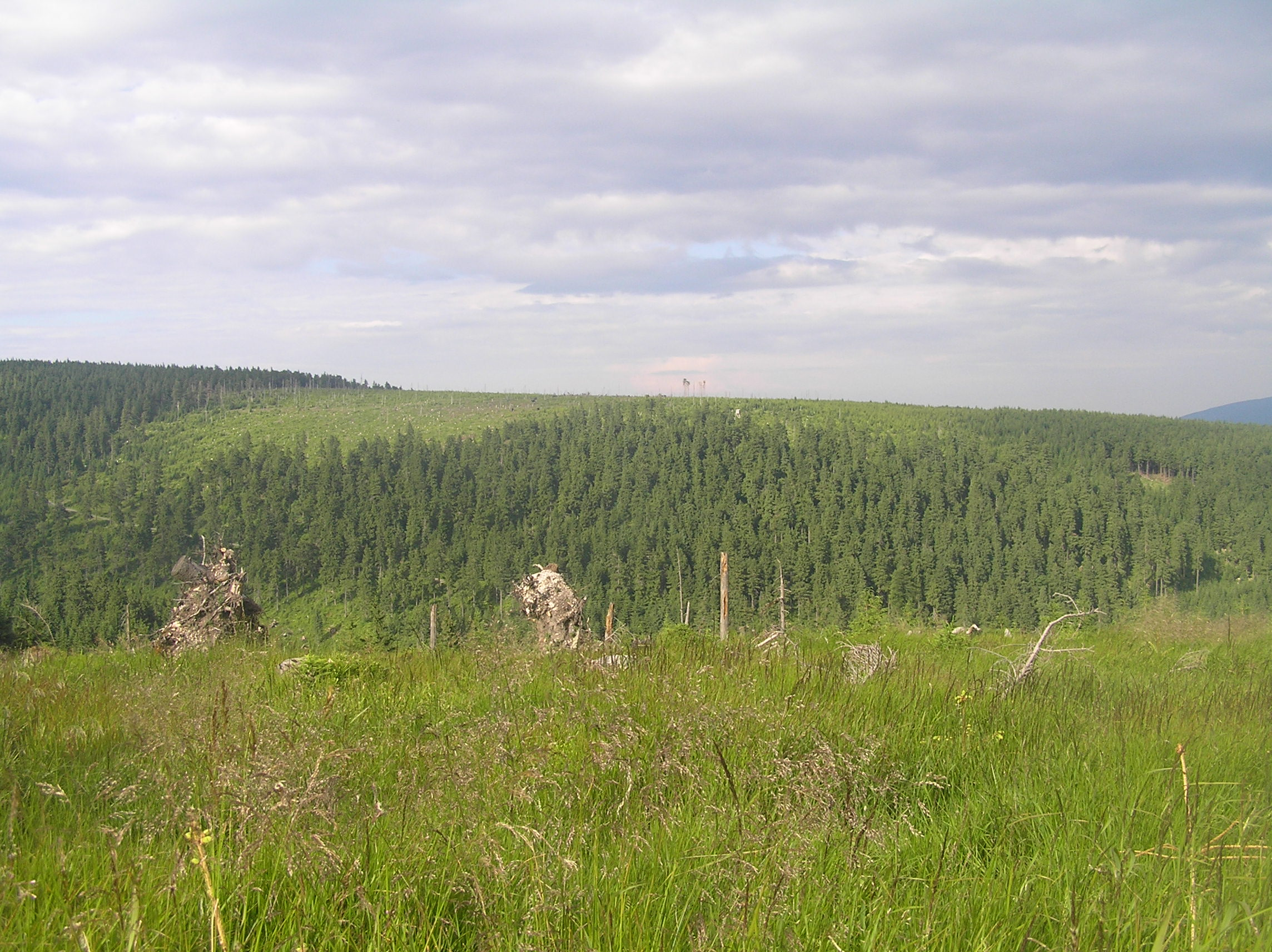 Velká Šindelná, The Králický Sněžník Mountains, Czech Republic